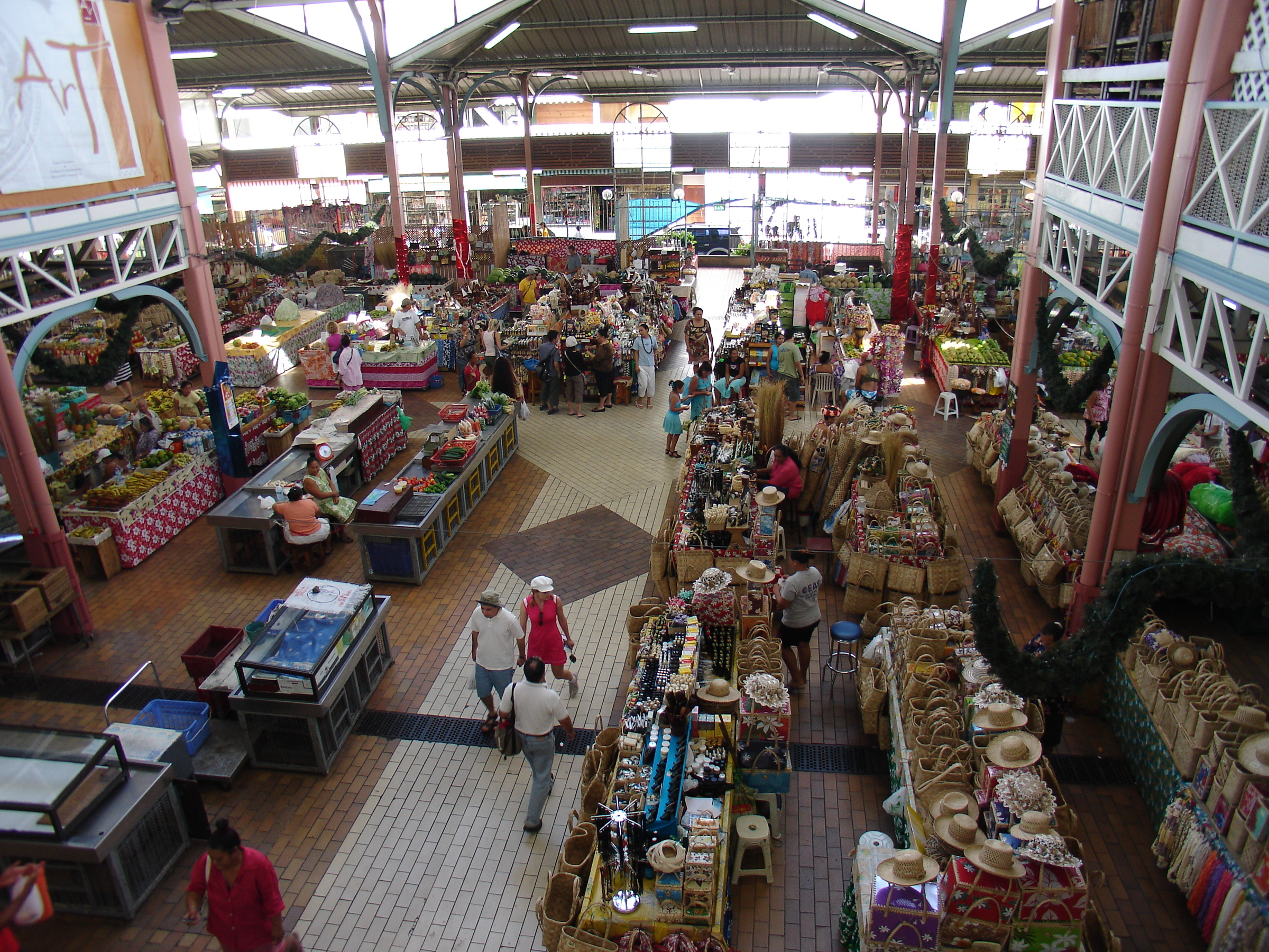 Marché Papeete